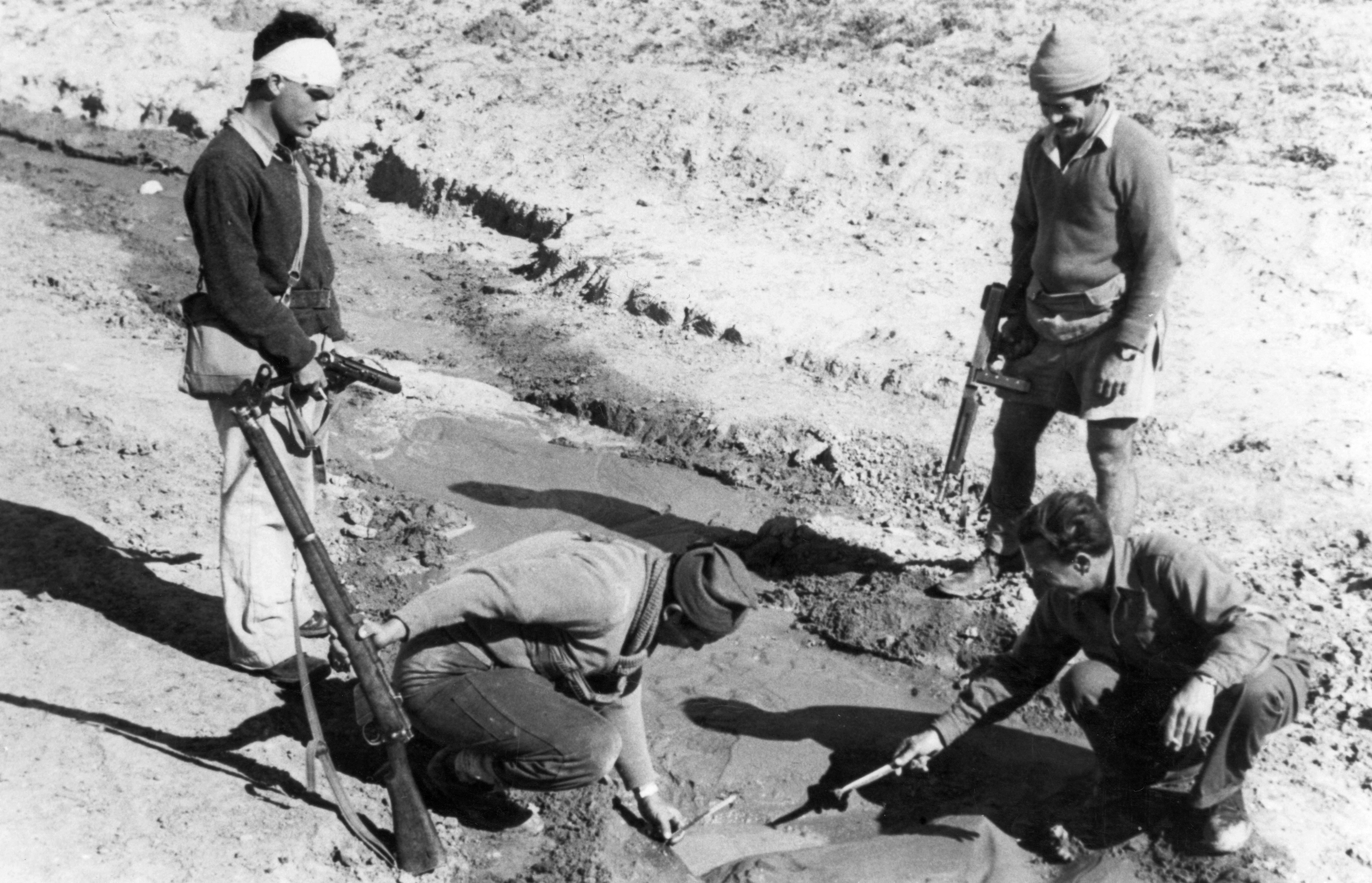 The Palmach, Israel Defense Forces